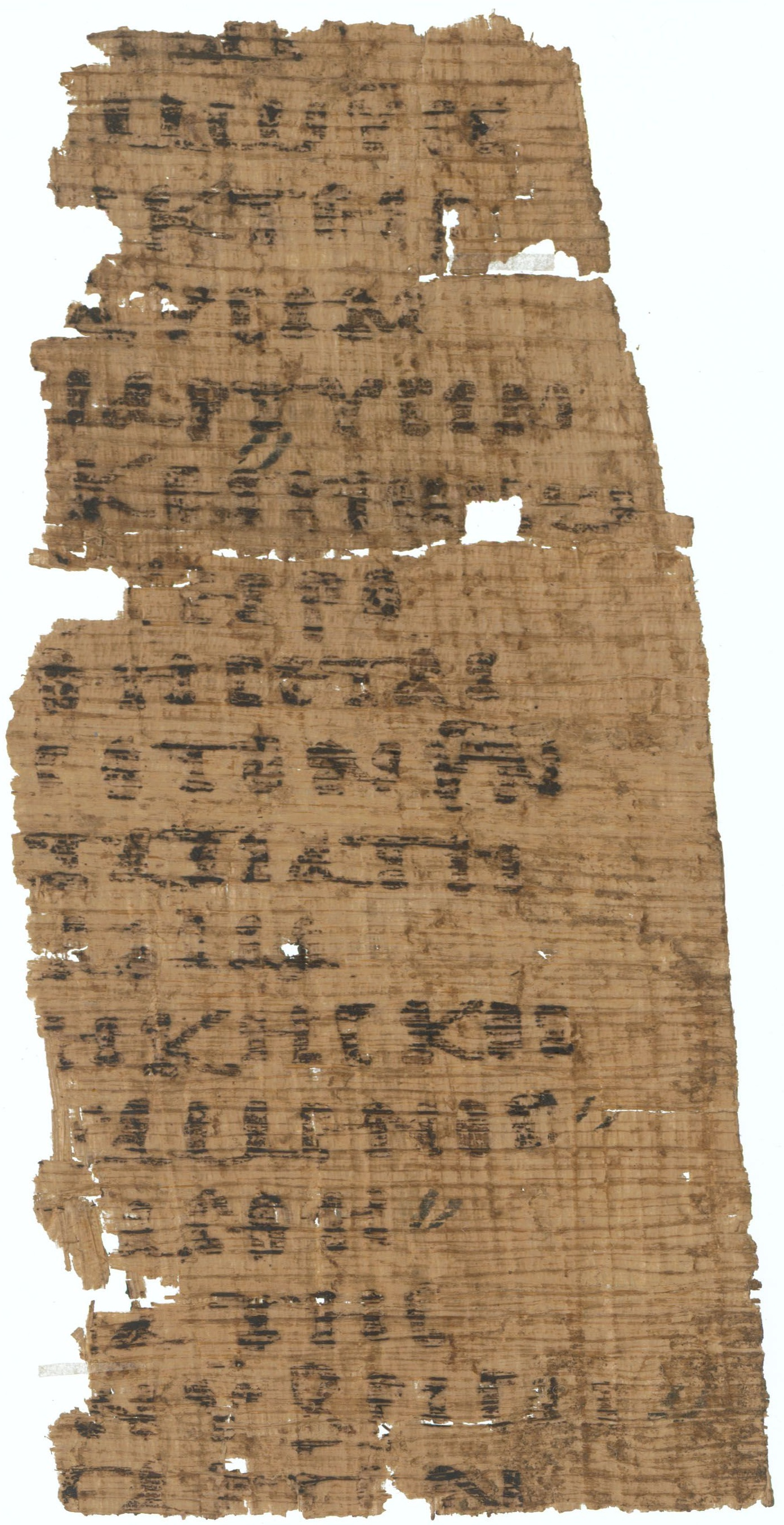 Papyrus 79 - Staatliche Museen zu Berlin inv. 6774 - Epistle to the Hebrews 10:10-12.28-30 - recto